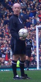 Dermot Gallagher, Premier League referee. Here in a match between Manchester United and Tottenham Hotspur 20.03.2004. My own photo.